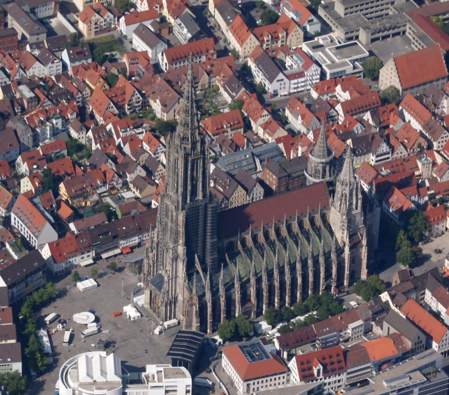 Aerial view of Ulm Minster - Gothic church in Ulm, Germany - 2014